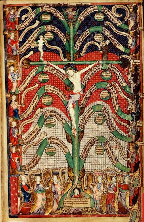 Dzīvības koks, kā krucifikss ar Vecās Derības praviešiem un svētajiem,1310.- 1320.g., Britu Bibliotēka, Londona, Anglija.